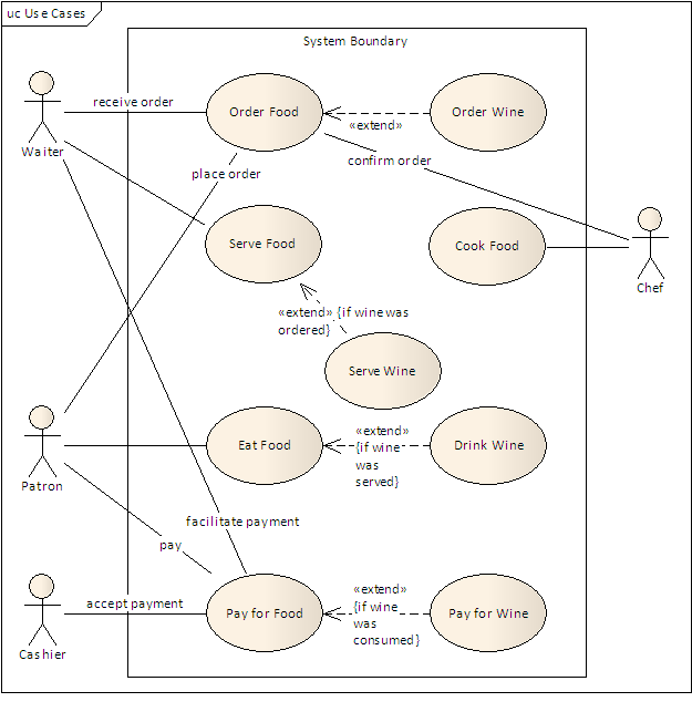 Use case model of a restaurant business